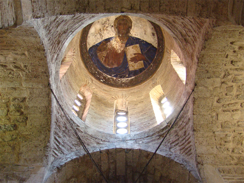 Church of Theotokos Gorgoepikoos and Ayios Eleytherios, Athens, Greece.